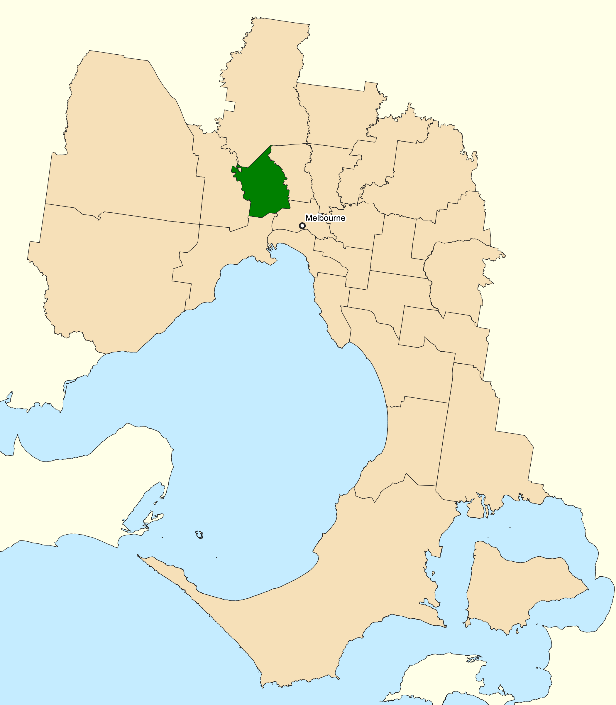 Location of the Australian federal electoral division of Maribyrnong (dark green) in Greater Melbourne, Victoria as of the 2019 Australian federal election. Incorporates or developed using Administrative Boundaries ©PSMA Australia Limited licensed by the Commonwealth of Australia under Creative Commons Attribution 4.0 International licence (CC BY 4.0).